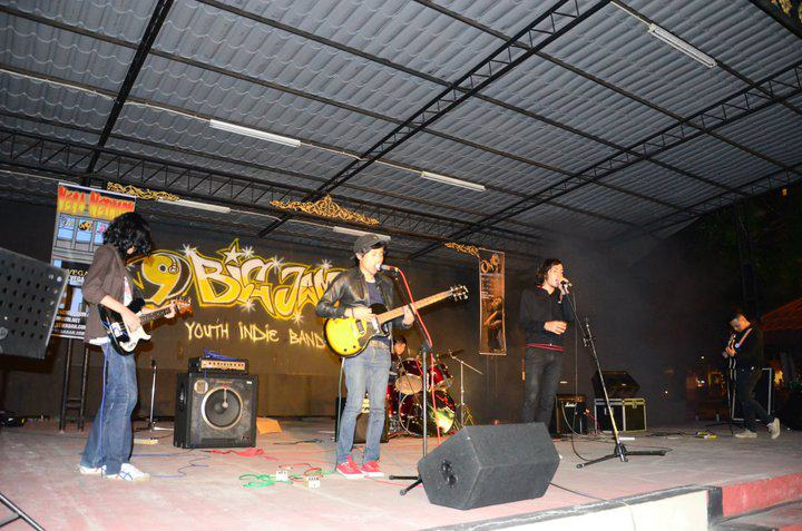 live performance